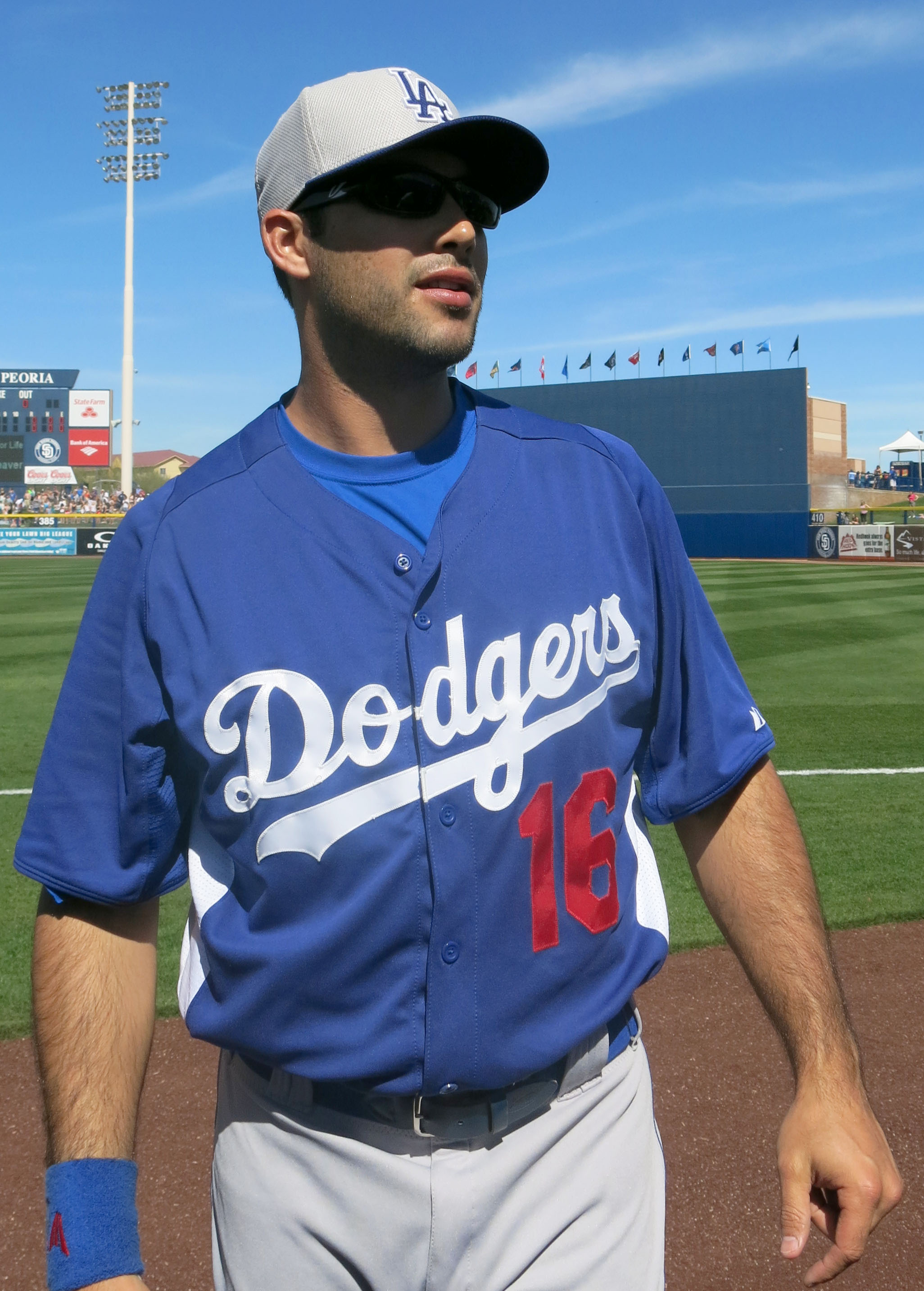 Los Angeles Dodgers right fielder Andre Ethier at a 2013 spring training game against the Seattle Mariners in Peoria, Arizona.